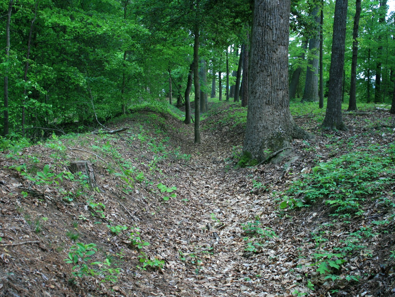 Confederate trench at Cold Harbor battlefield